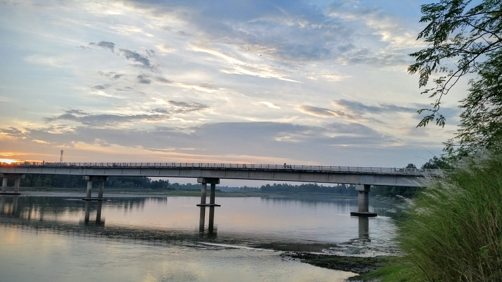 Dr. M A Wazed Miah Bridge at Kanchdaha in Rangpur division, Bangladesh.